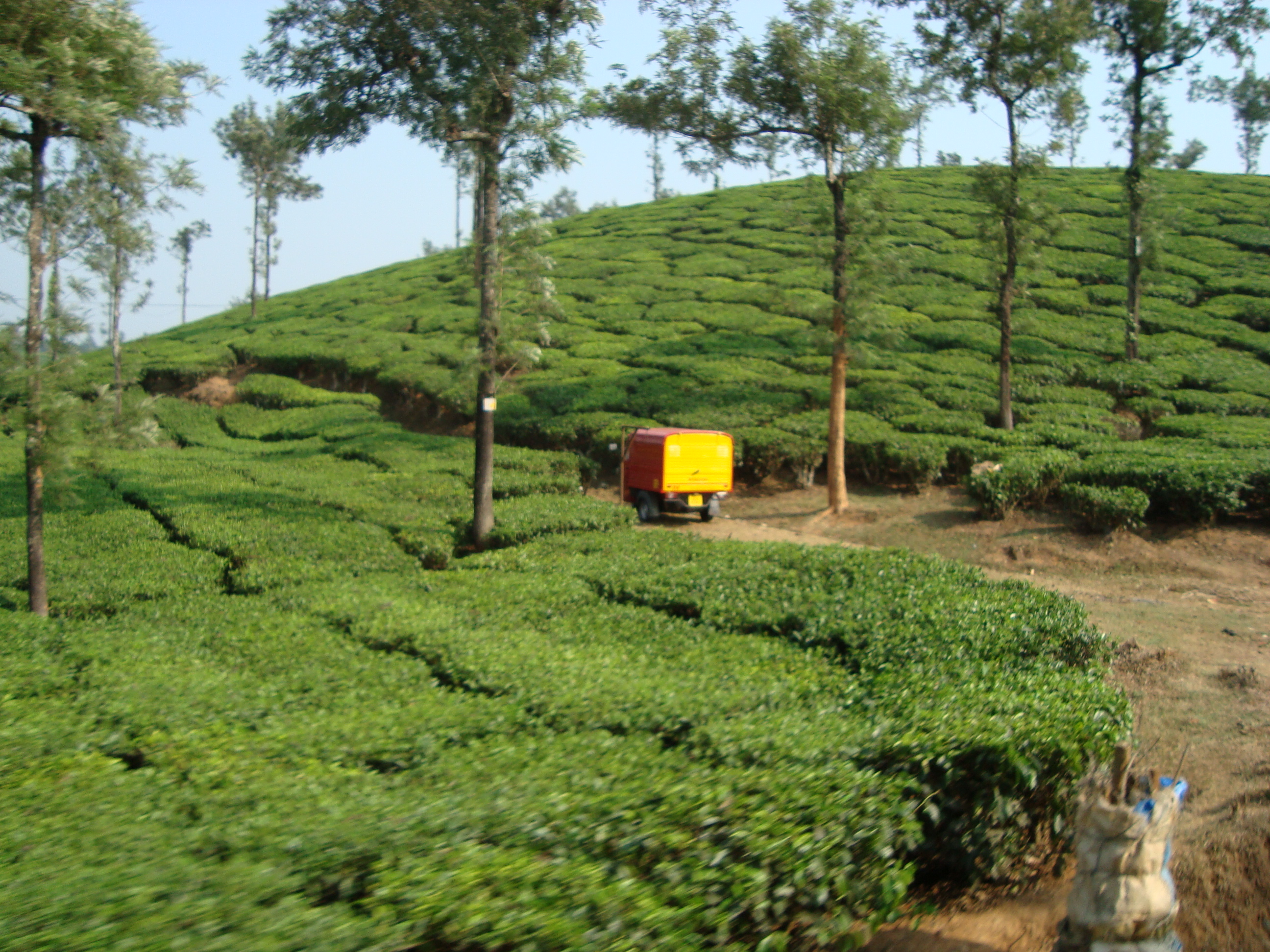 A tea plantation near Kalpetta, Wynad